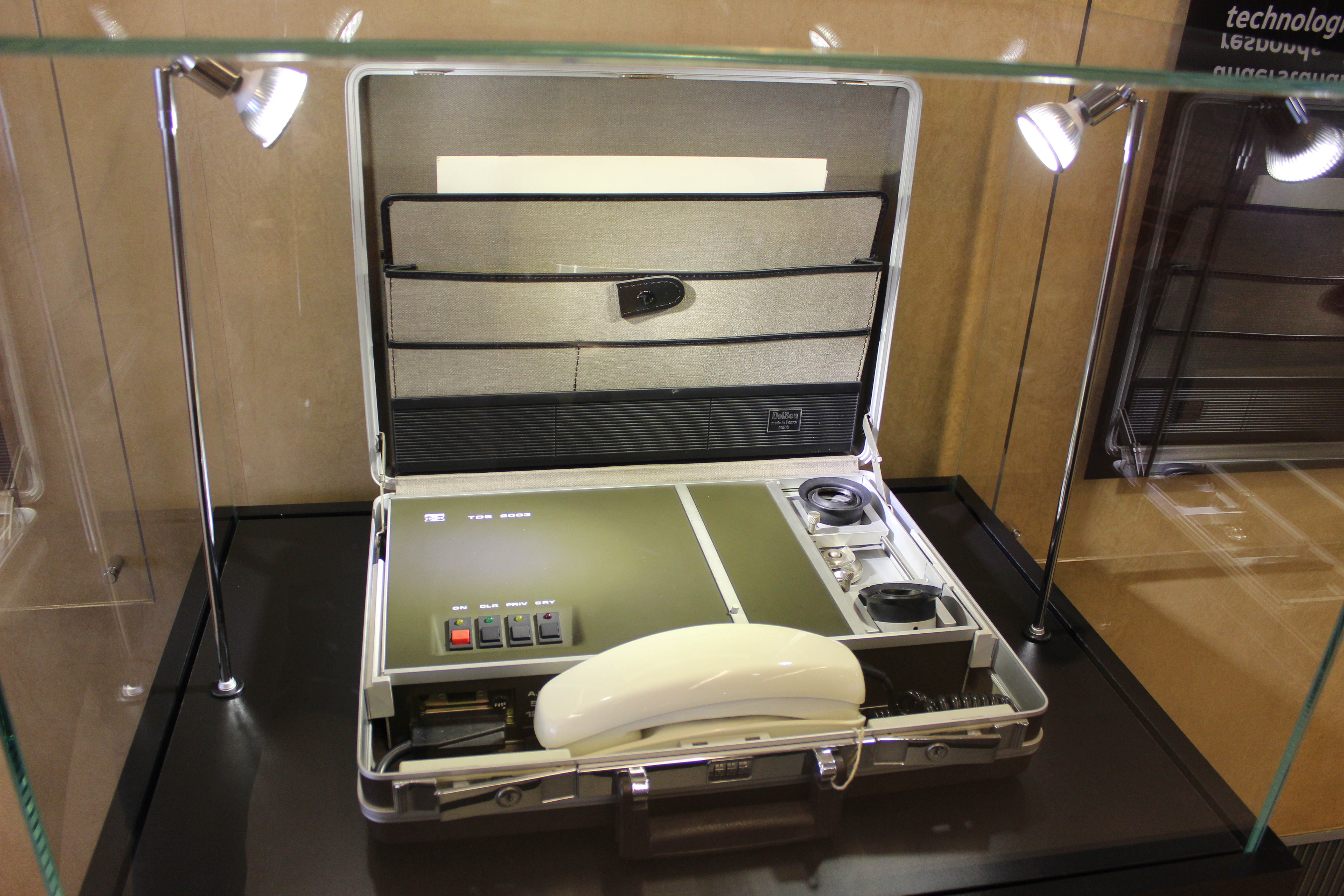 Telsy TDS2003